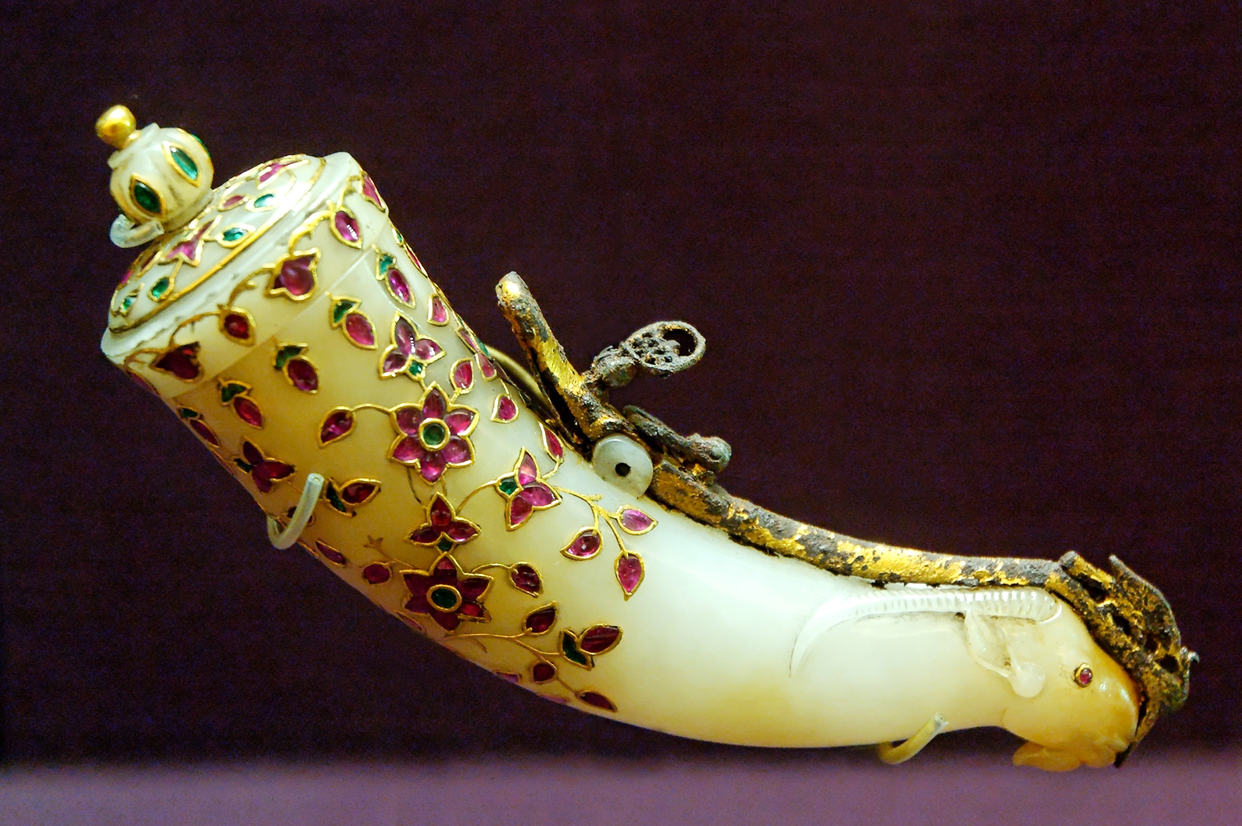 Gunpowder horn.